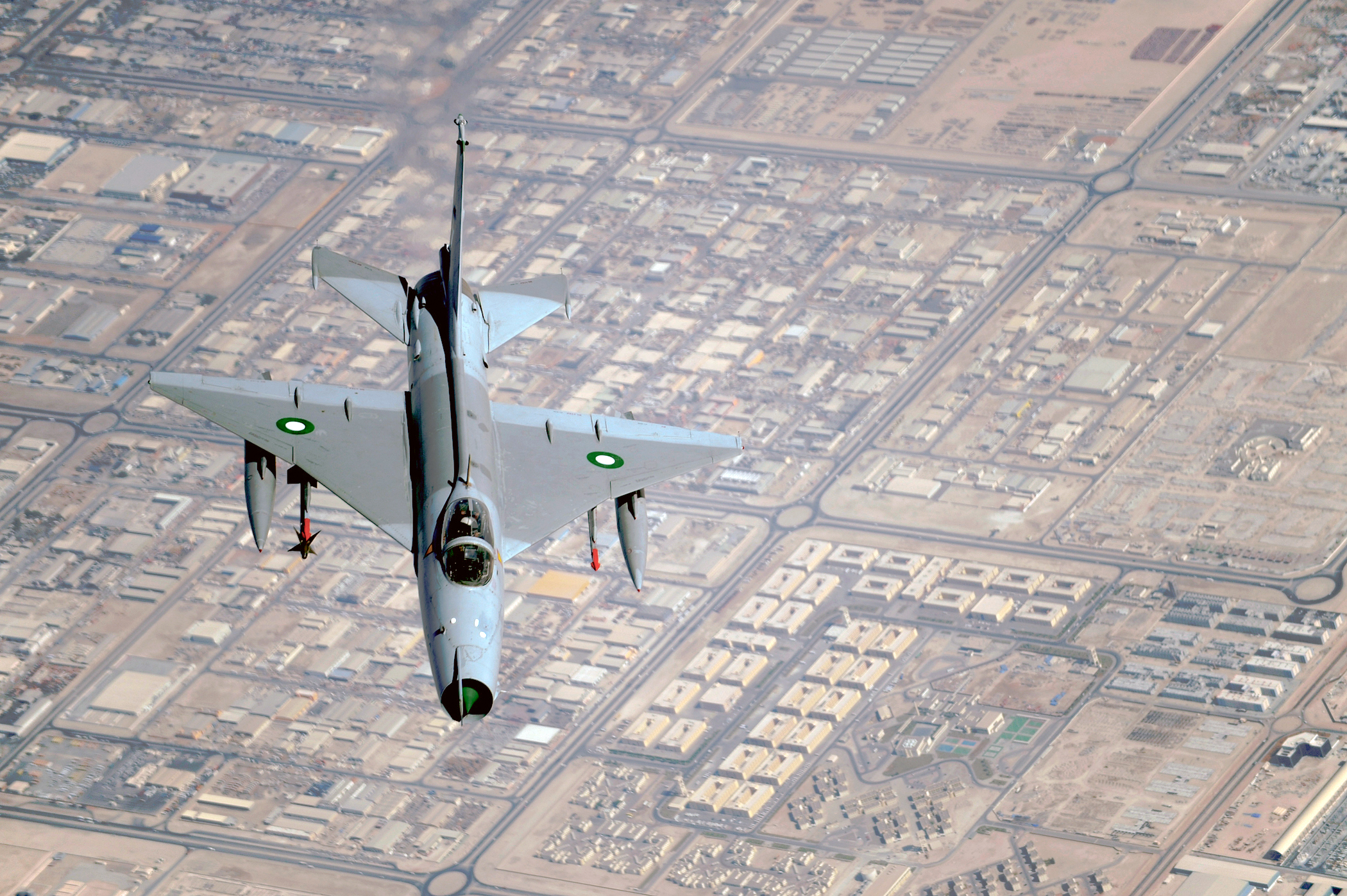 A Pakistani F-7 conducts a training mission during a multinational exercise, Dec. 9, 2009, in Southwest Asia. Aircrews from France, Jordan, Pakistan, the U.K., and the U.S. trained together in the Air Forces Central area of responsibility in fighting a large-scale air war.